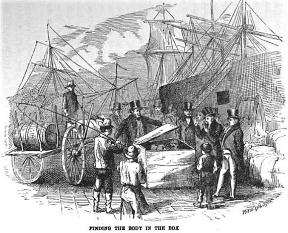 A drawing of the authorities opening the box containing the body of Samuel Adams, first published 1874